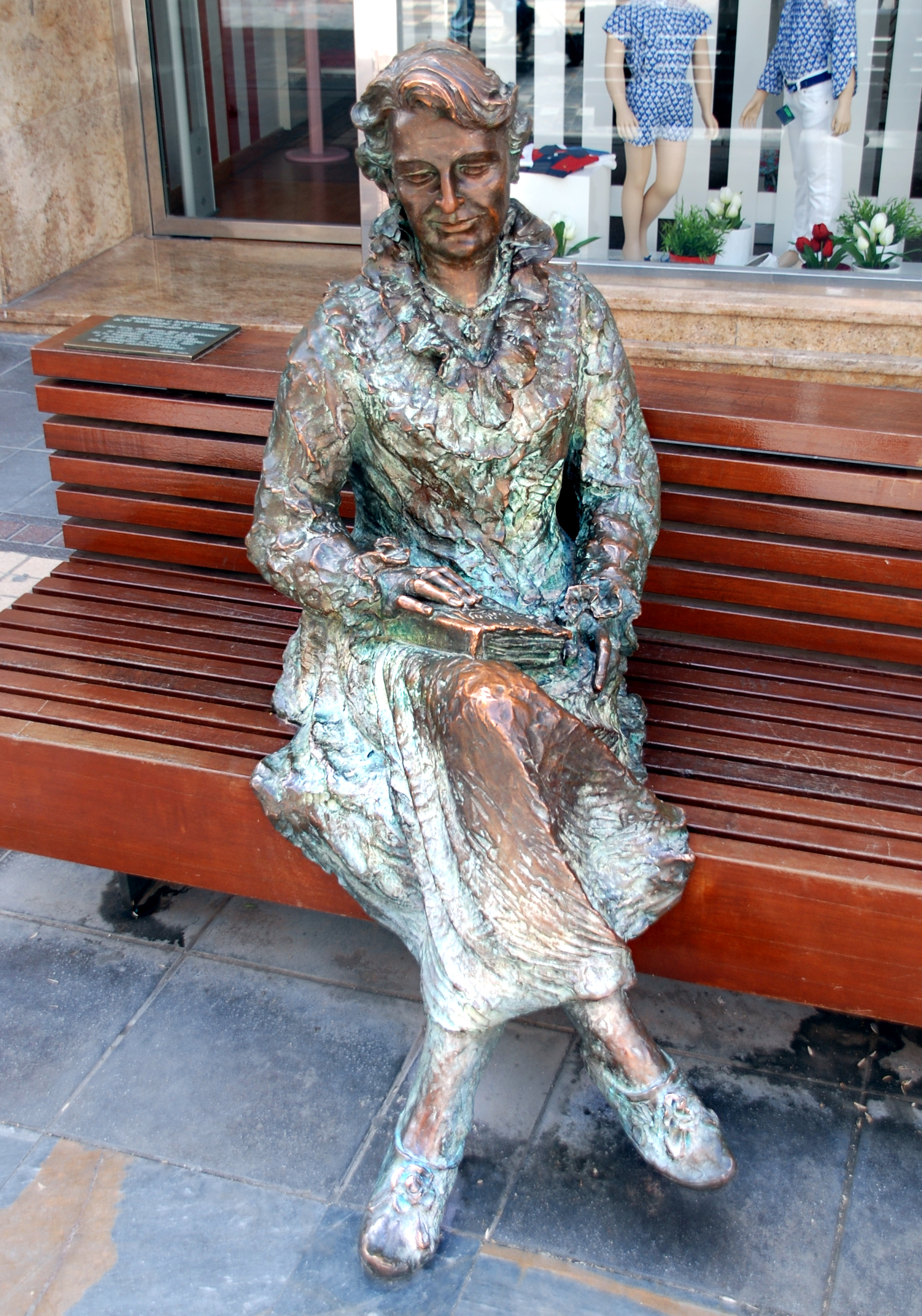 Statue of Carmen Conde (poet, teacher and writer), inaugurated in May 2007, on centennary of her birth, by sculptor Juan José Quirós. Life size art work, sat on a bench of El Carmen Street in Cartagena (Spain), her hometown.